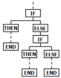 A flowchart detailing the use of the IF-THEN command using HP-BASIC.